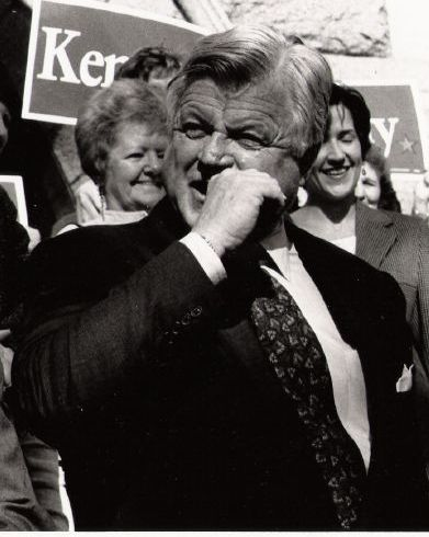 Senator Ted Kennedy at a 1994 re-election rally in Lowell with then-Mayor Richard P Howe Sr. (Kennedy handily defeated Republican challenger Mitt Romney).